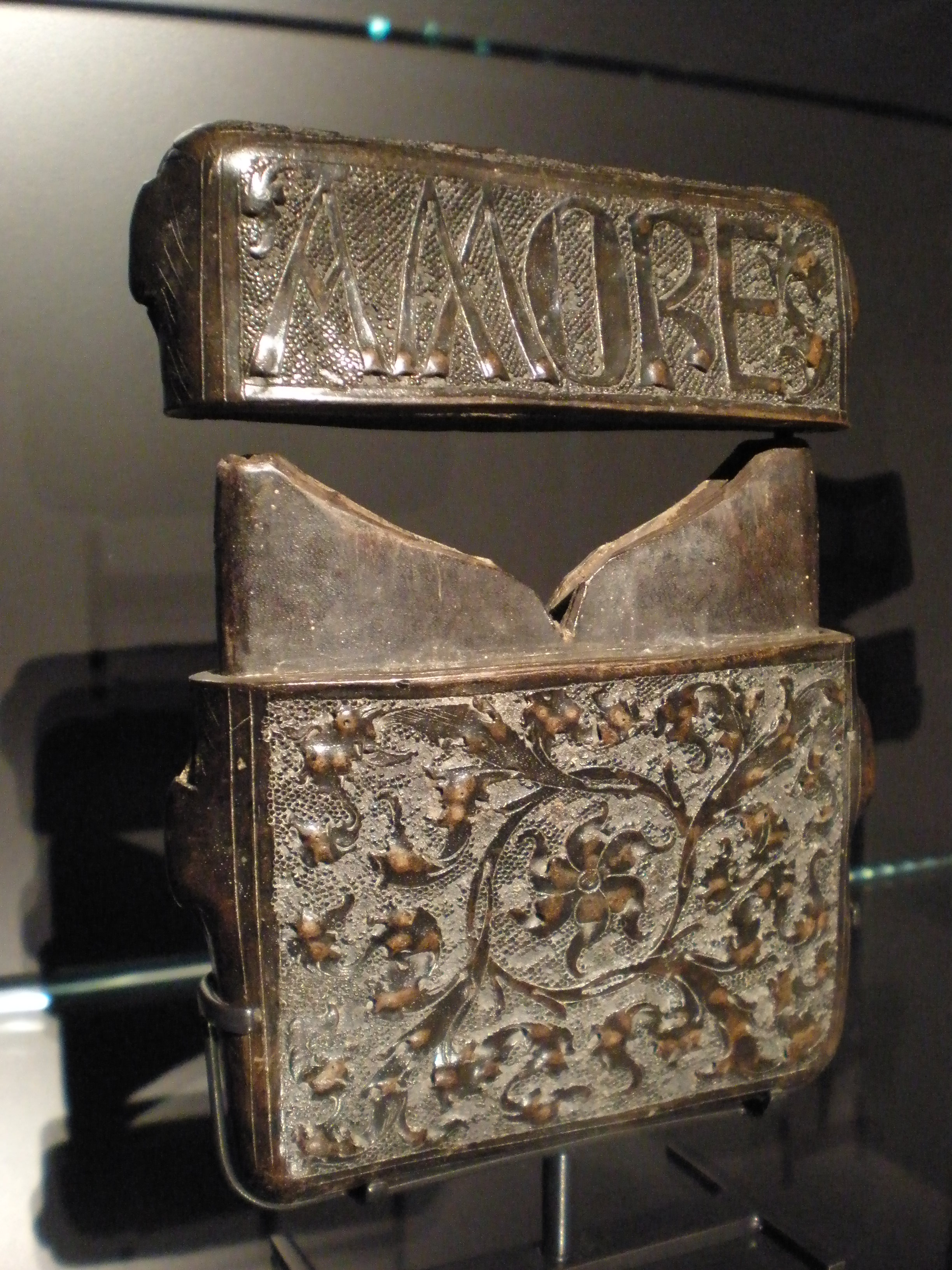 Comb case and lid 1400-1500 Italy Moulded leather, tooled, carved and stamped inscribed in Italian "With good love\" The high value of personal possessions encouraged the use of protective cases of all shapes and sizes. These were moulded and stitched in leather, and were close-fitting and light-weight. They are exceptionally durable, and have often outlasted the contents. Integral loops allowed the lids to be secured with a cord or thong, by which smaller cases could be carried on a belt for convenience. They could be intricately decorated with fashionable ornament, personalised inscriptions and colour. This case was probably made for an ivory comb. With the lid removed, the comb could have been easily grasped along its handle, by virtue of the cutaway area at the mouth of the case. The inscription DE BOEN AMORE (With good love), and floral imagery make explicit the nature of the gift. A comb was considered an appropriate love gift from the lover to his beloved at a betrothal. In his De Amore, written in the 1180s, Capellanus wrote that �A lover may freely accept from her beloved these things: a handkerchief, a hair band, a circlet of gold or silver, a brooch for the breast, a mirror, a belt, a purse, a lace for clothes, a comb, a keepsake of the lover, and, to speak more generally, a lady can accept from her love whatever small gift may be useful in the care of her person, or may look charming, or may remind her of her lover, providing, however, that in accepting the gift it is clear that she is acting quite without avarice.� Collection ID: 15-1891 This photo was taken as part of Britain Loves Wikipedia in February 2010 by David Jackson.